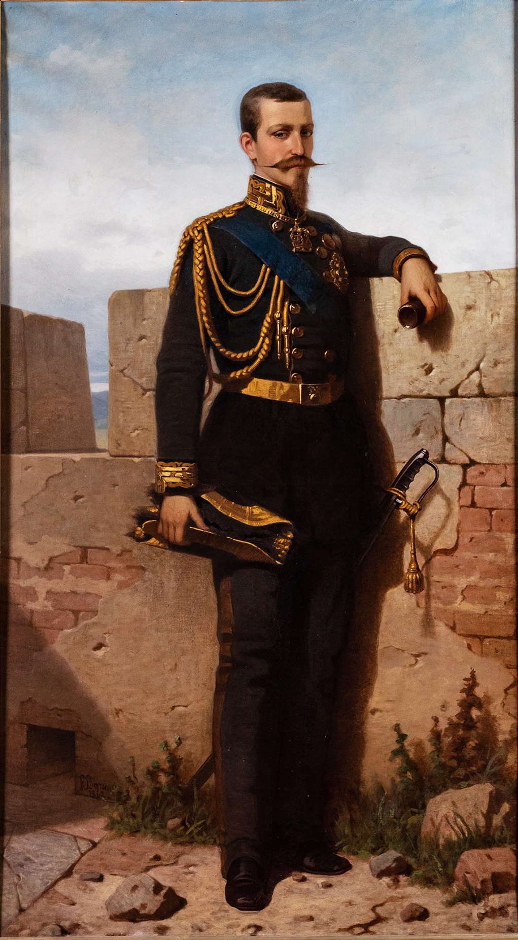 Portrait of Prince Ferdinando, Duke of Genoa (1822–1855)